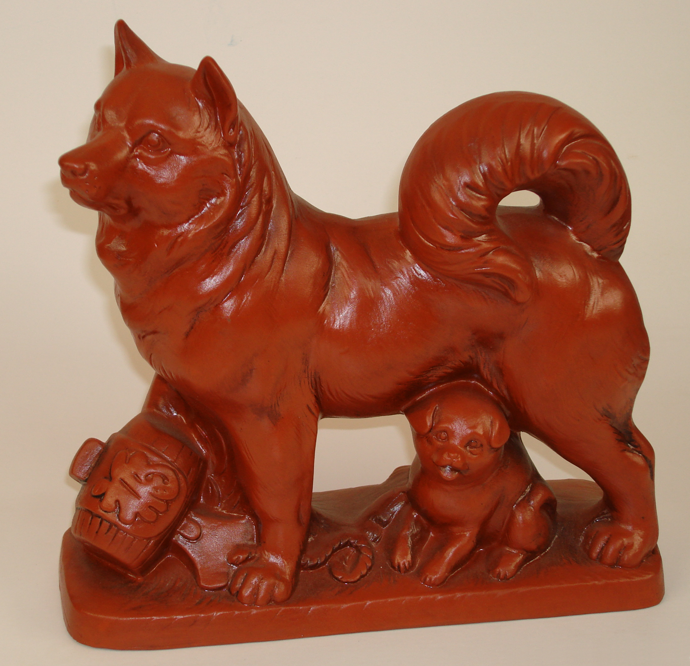 Okimono representing a red dog and puppy